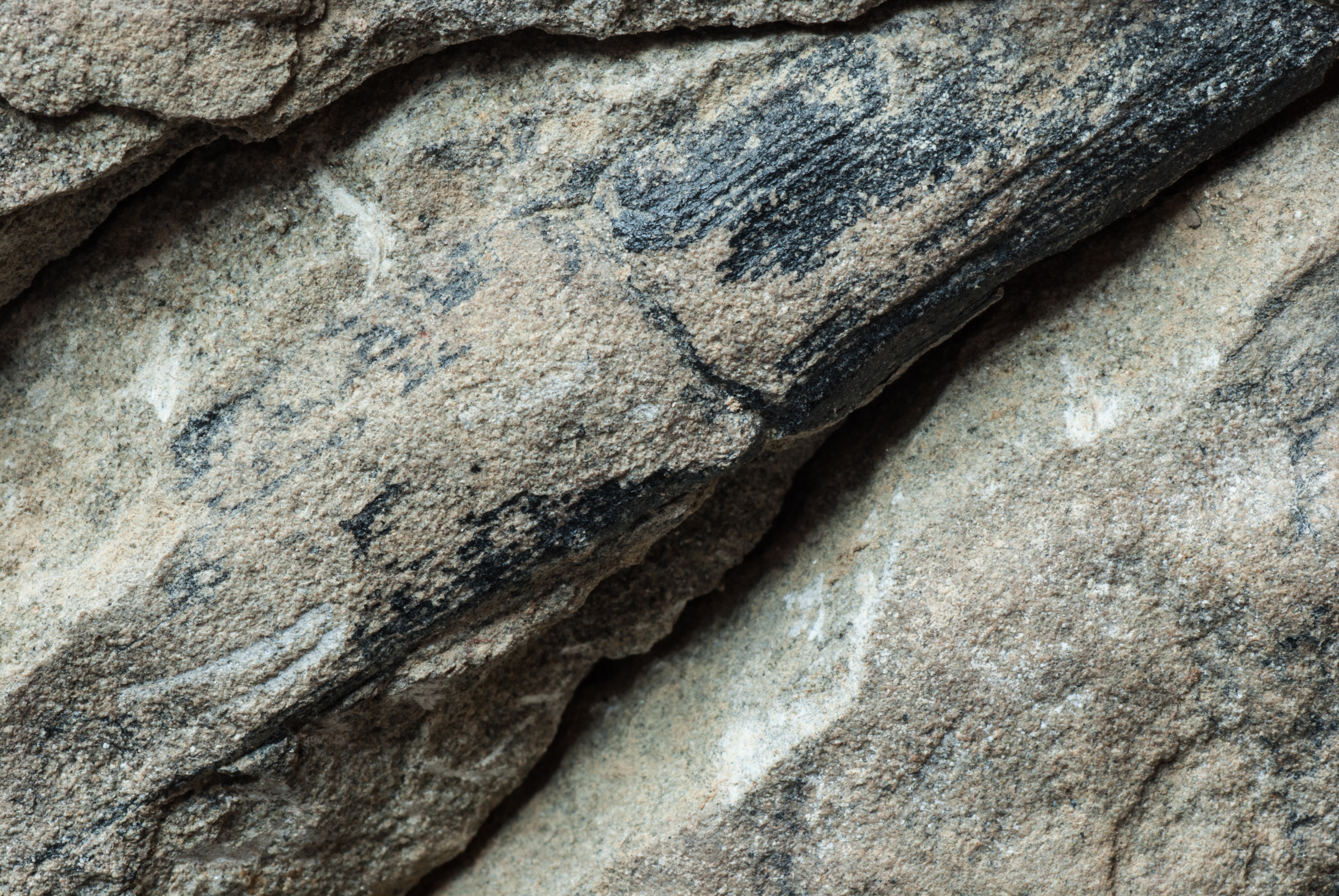 Stalk of a plant of the Lunz flora with a diameter of ca 1 cm (Neocalamites merianii?)